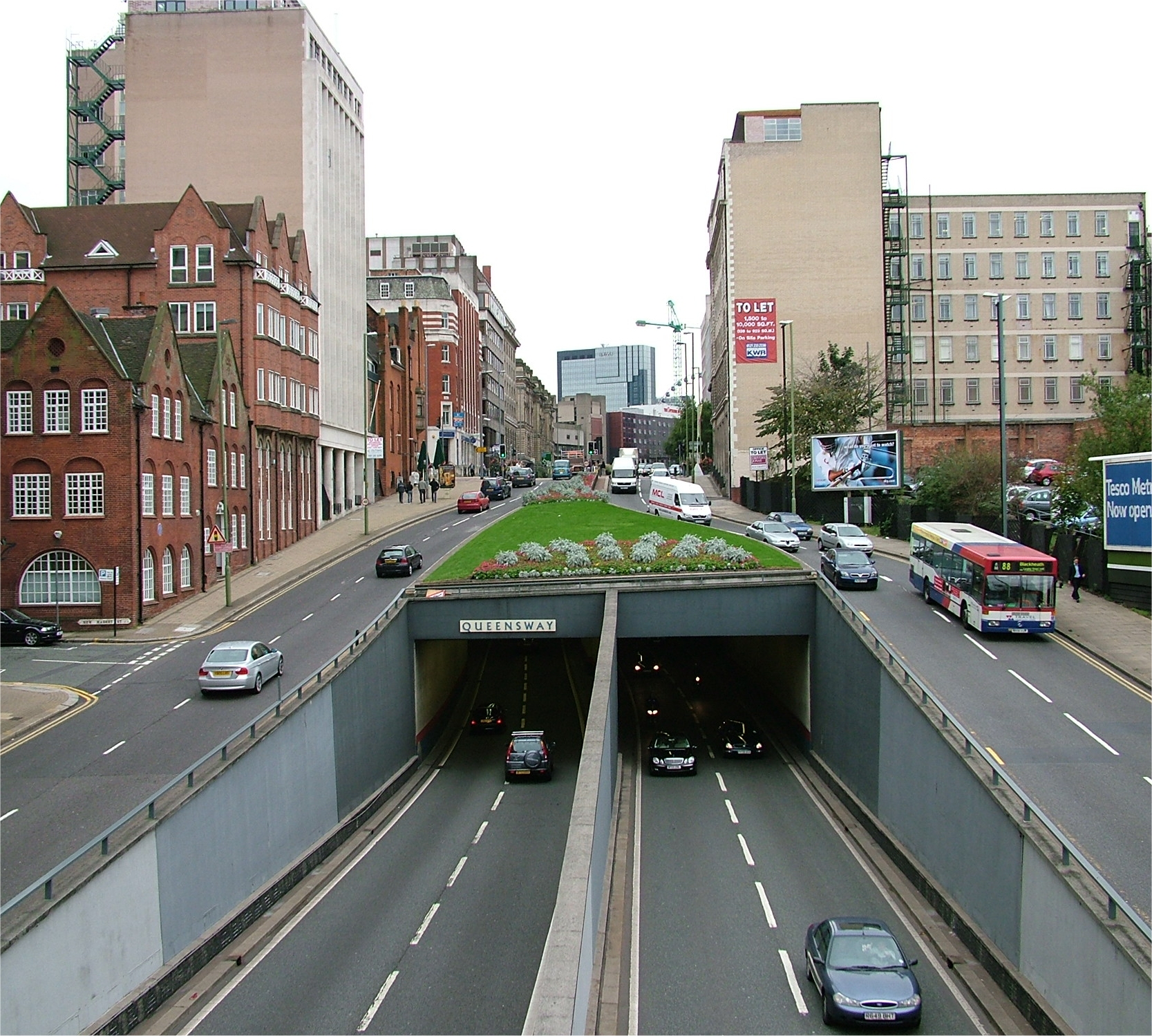 Queensway in Birmingham, looking south-west from Great Charles Street. By and copyright Tagishsimon 14th October 2005